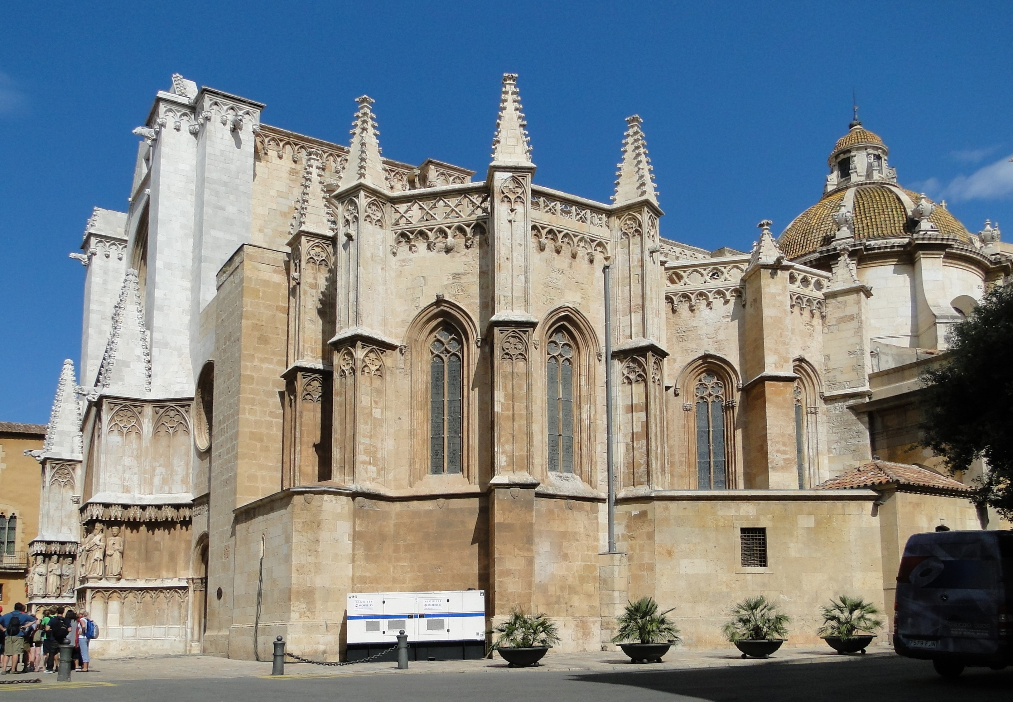 Cathedral of Tarragona, Spain